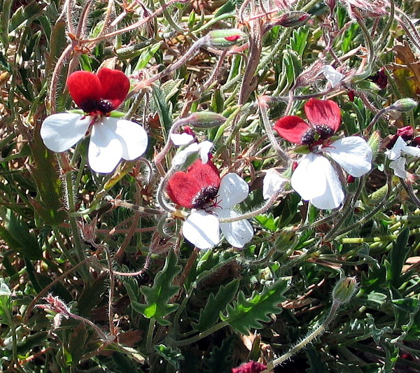 Pelargonium tricolor, Geraniaceae